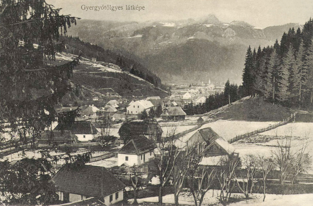 Tulghes from Putna Valley in 1914